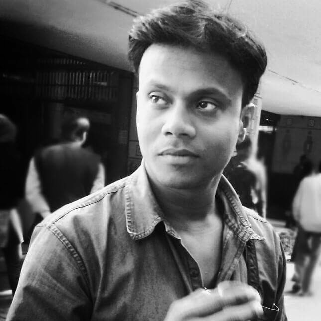 Photo of Actor Koushik Kar